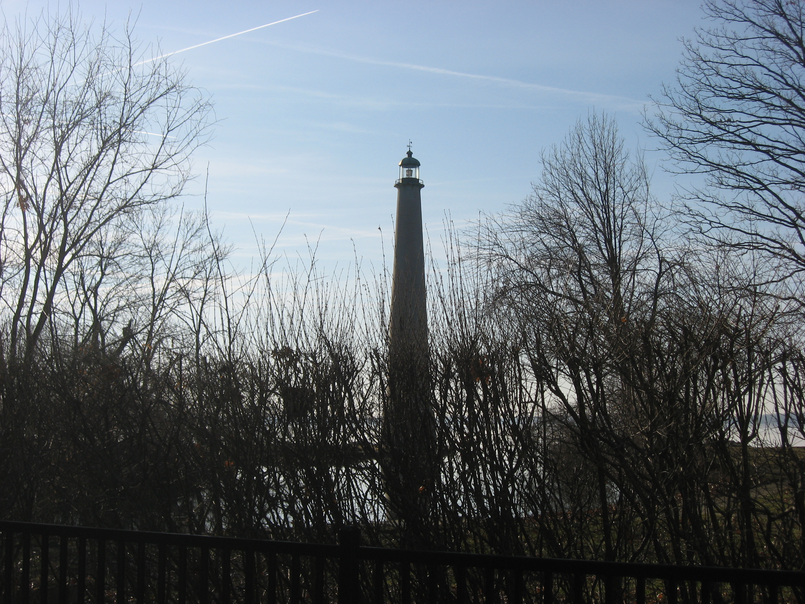 Northern side of the Grand Lake St. Marys Lighthouse, located south of State Route 703 on the northern shore of Grand Lake St. Marys east of Celina in Jefferson Township, Mercer County, Ohio, United States. Built in 1923, it is listed on the National Register of Historic Places.